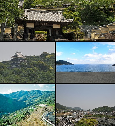 Minami montage